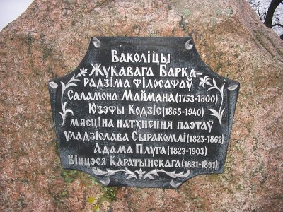 Memorial stone for famous people in Belarus, inter alia Solomon Maimon